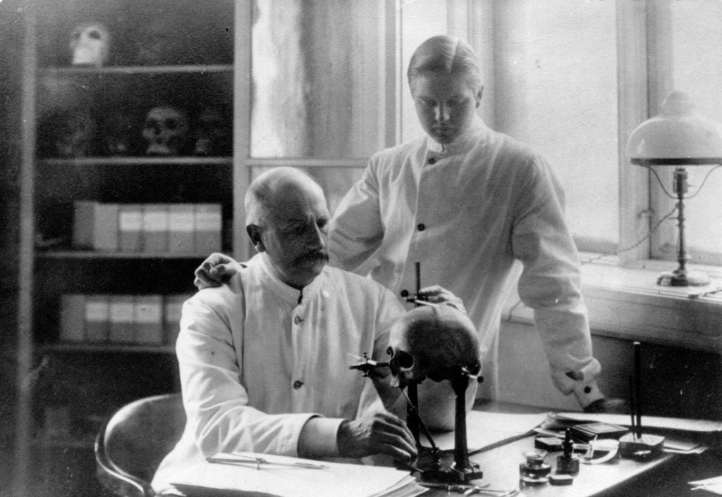 Carl Magnus (1854-1935) and his son Carl Andreas Fürst (1888-1982), examining a cranium